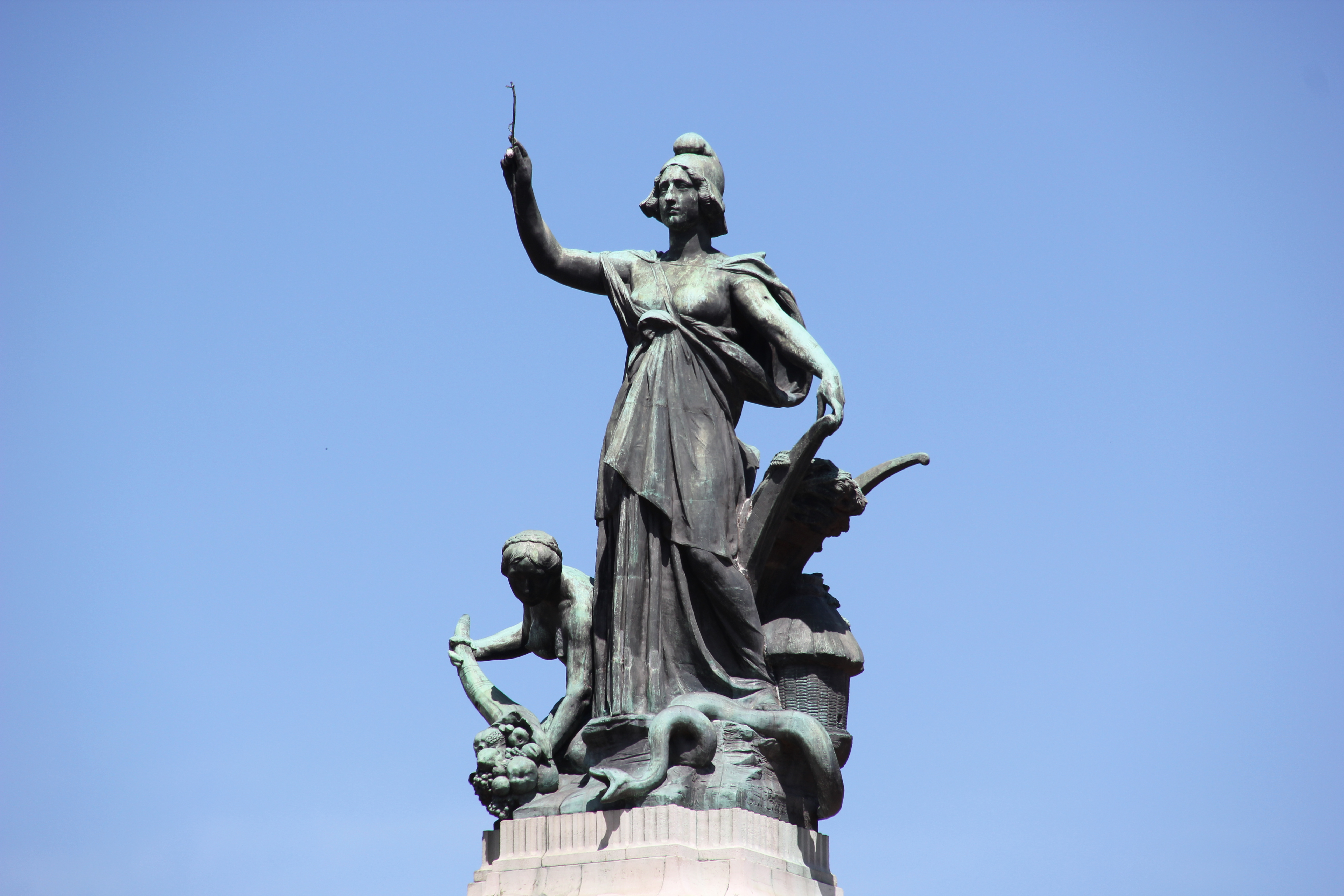 The statue of the woman on the Monumento de los dos Congresos, Buenos Aires, Argentina.